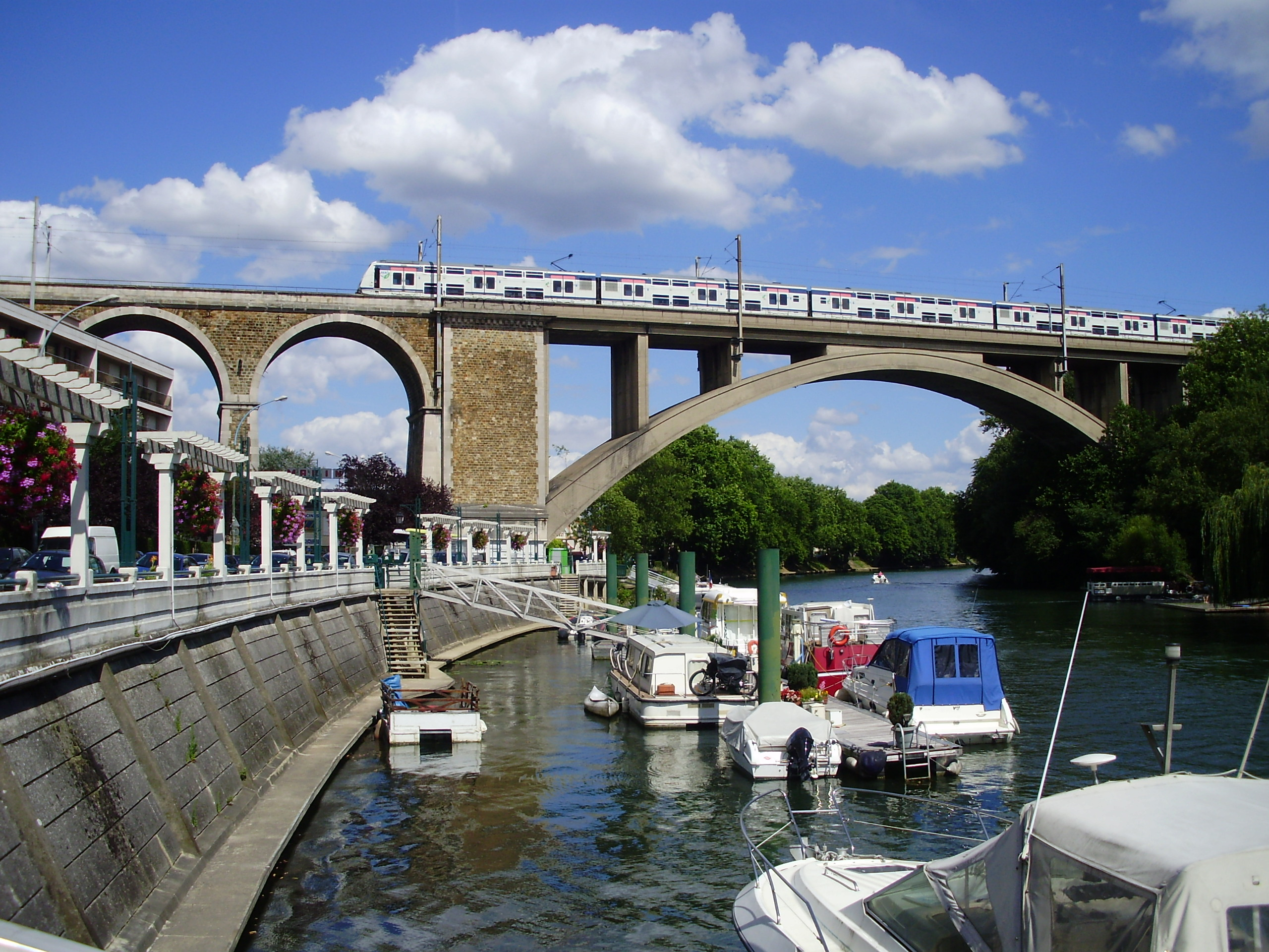 Railway bridge of Nogent-sur-Marne, Val-de-Marne, France, seen from the quai du port (harbour embankment) in Nogent-sur-Marne